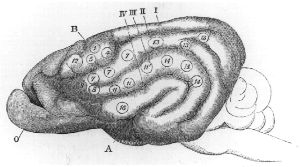 Illustration of a dog's cortical map done by David Ferrier